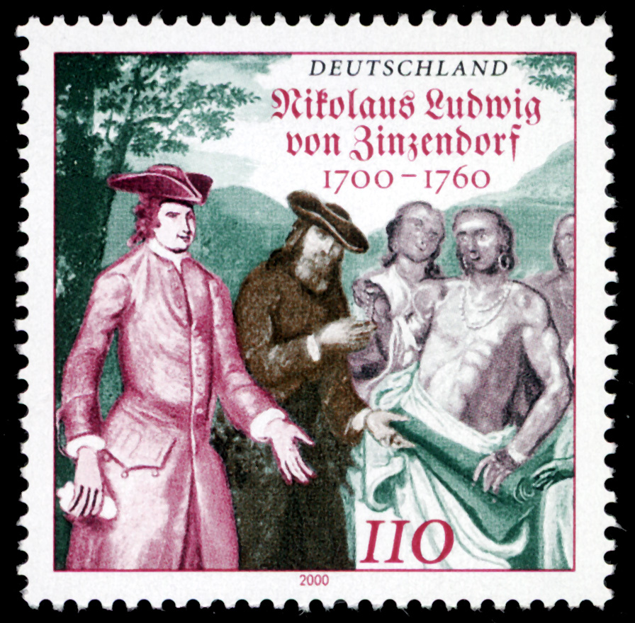 Stamp from Deutsche Post AG from 2000, 300th birthday of Nikolaus Ludwig von Zinzendorf